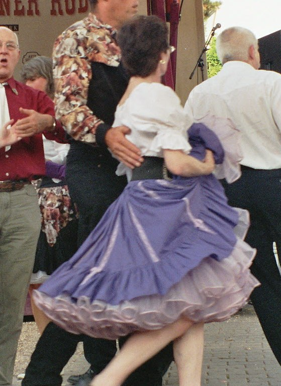 Western Square Dance Group. The women are wearing traditional layered net crinoline petticoats.